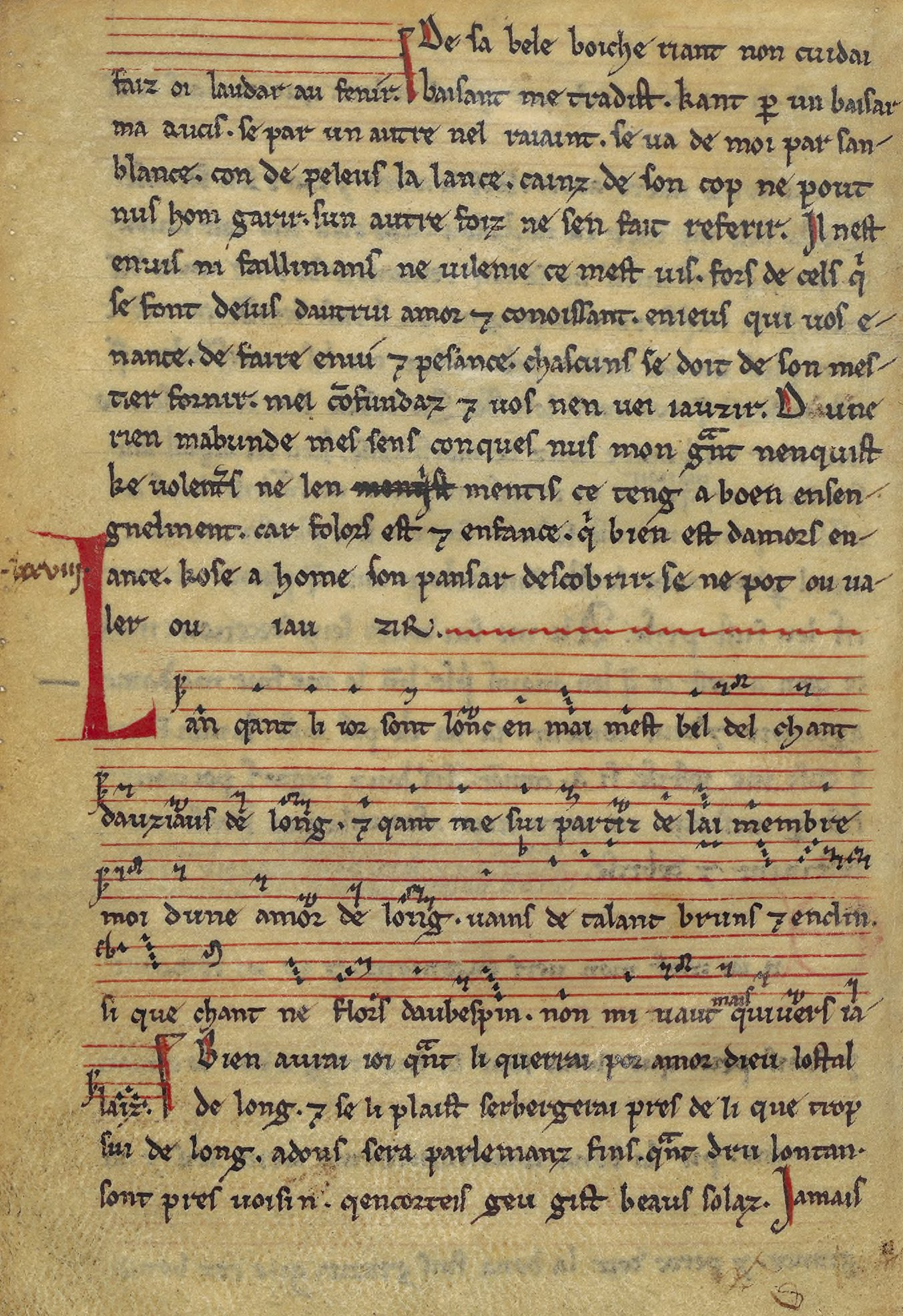 Folio 81v, song 6 of Jaufre Rudel, from chansonnier "X" (or "U"), from Lorraine (13th century), now in the Bibliothèque nationale de France, Paris, as français 20050. This is the Chansonnier de Saint-Germain-des-Prés.